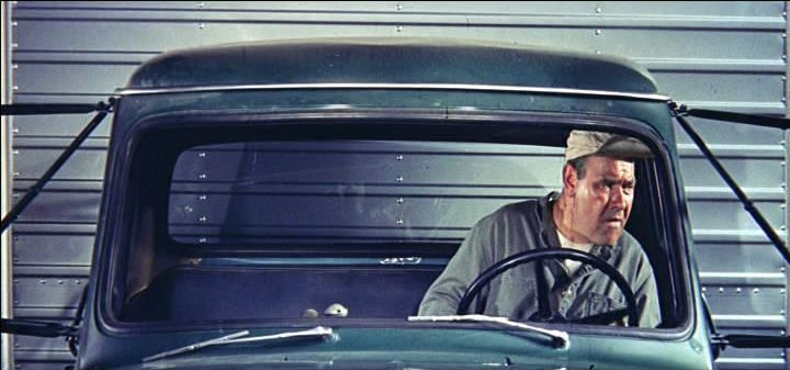 Jonathan Winters as a truck driver